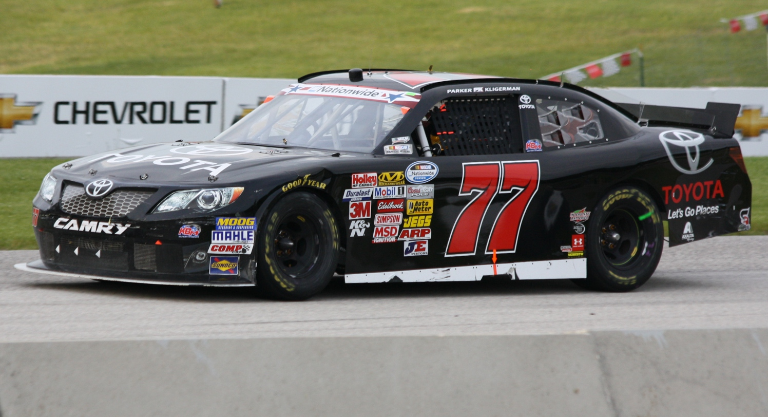 The NASCAR Nationwide car of Parker Kligerman during the w:2013 Johnsonville Sausage 200 at Road America.